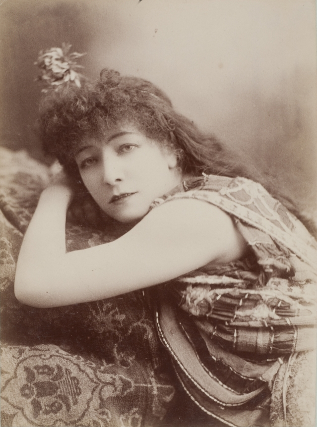 Photograph of Sarah Bernhardt as Cleopatra.